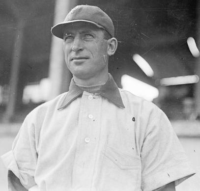 Fred Clarke of the Pittsburgh Pirates at the West Side Grounds in 1903; "Half-length portrait of Capt. Fred Clarke, baseball player, outfielder, Pittsburgh Pirates, National League, standing on field near bleachers at West Side Grounds, which was located between West Polk Street, South Wolcott Avenue (formerly Lincoln Street), West Taylor Street, and South Wood Street, in the Near West Side community area of Chicago, Illinois."